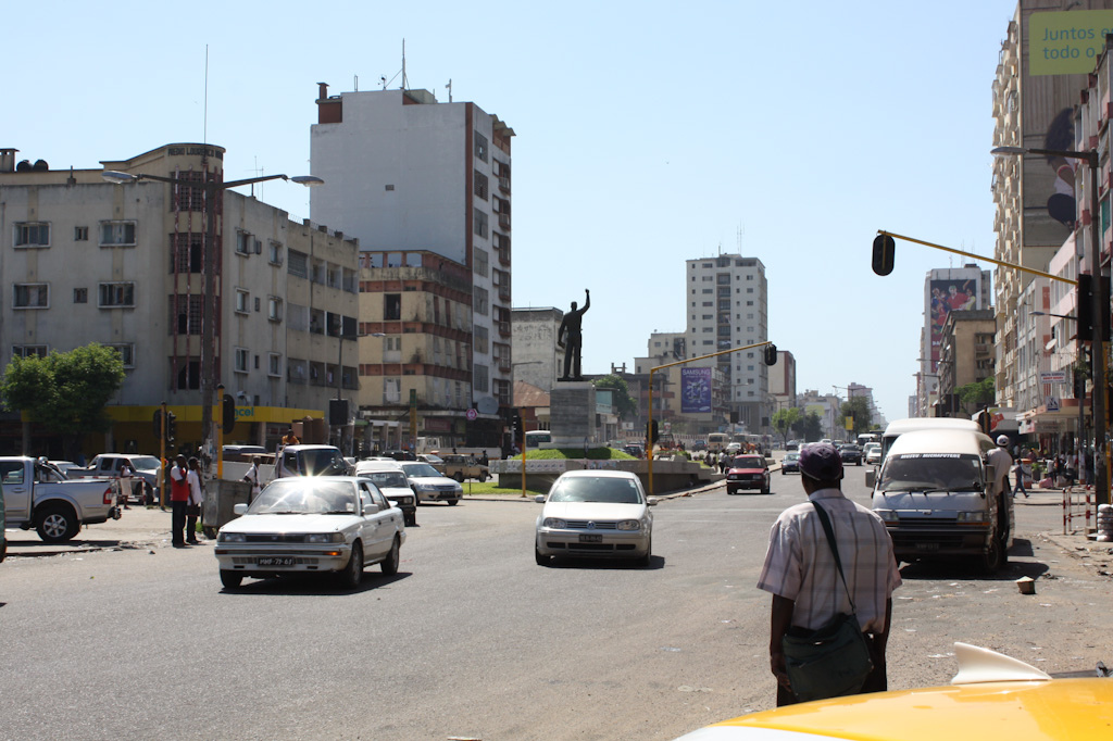 Avenida Eduardo Mondlane, Maputo, Mozambique